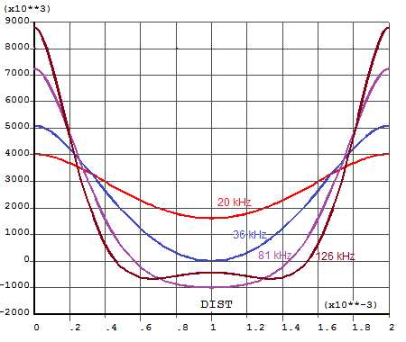 Distribution of current density along wire diameter at different frequencies